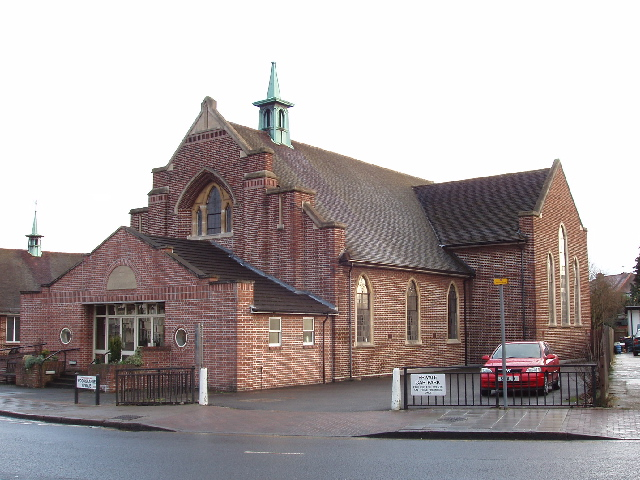 Kenton Methodist Church. On Kenton Road, by Totternhoe Close. Built in 1937.